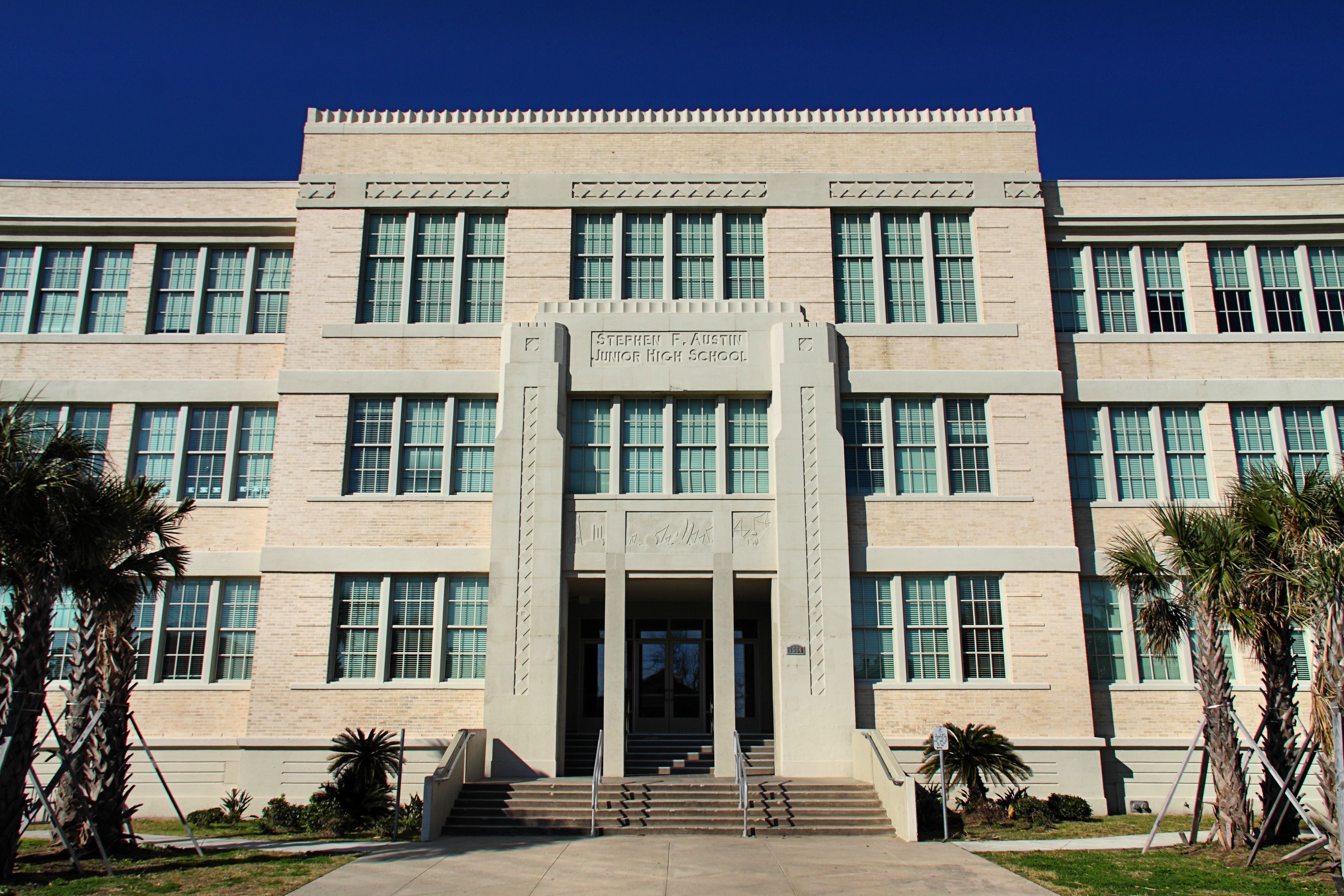 Stephen F. Austin Junior High (now Stephen F. Austin Magnet Middle School) in Galveston, Texas. It was built in 1939 as part of the Federal Emergency Works Progress Administration.